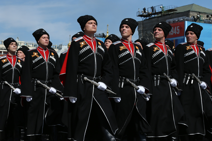 Cossacks troops in Victory parade in 2015